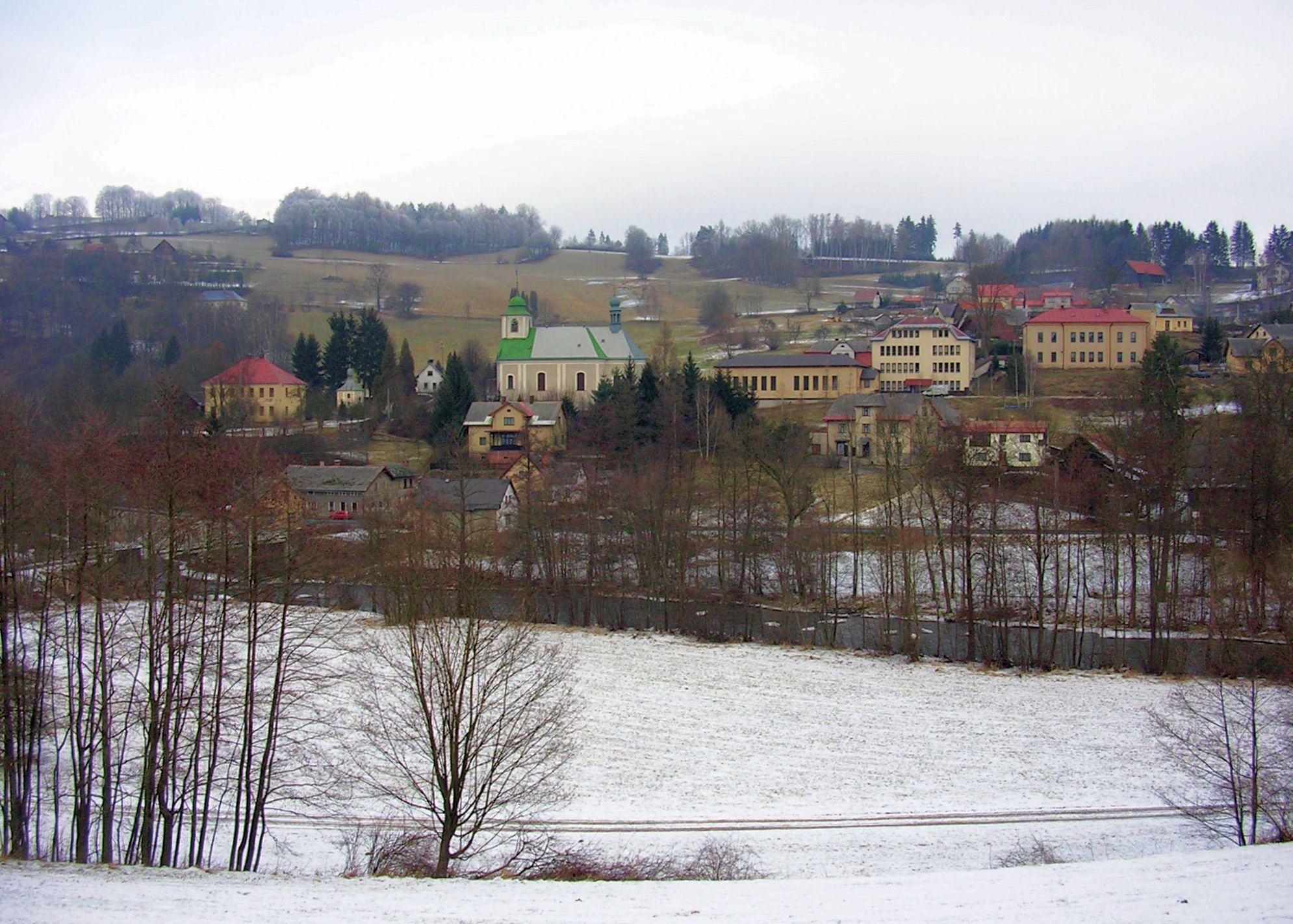 Háje nad Jizerou-Loukov, the Czech Republic.